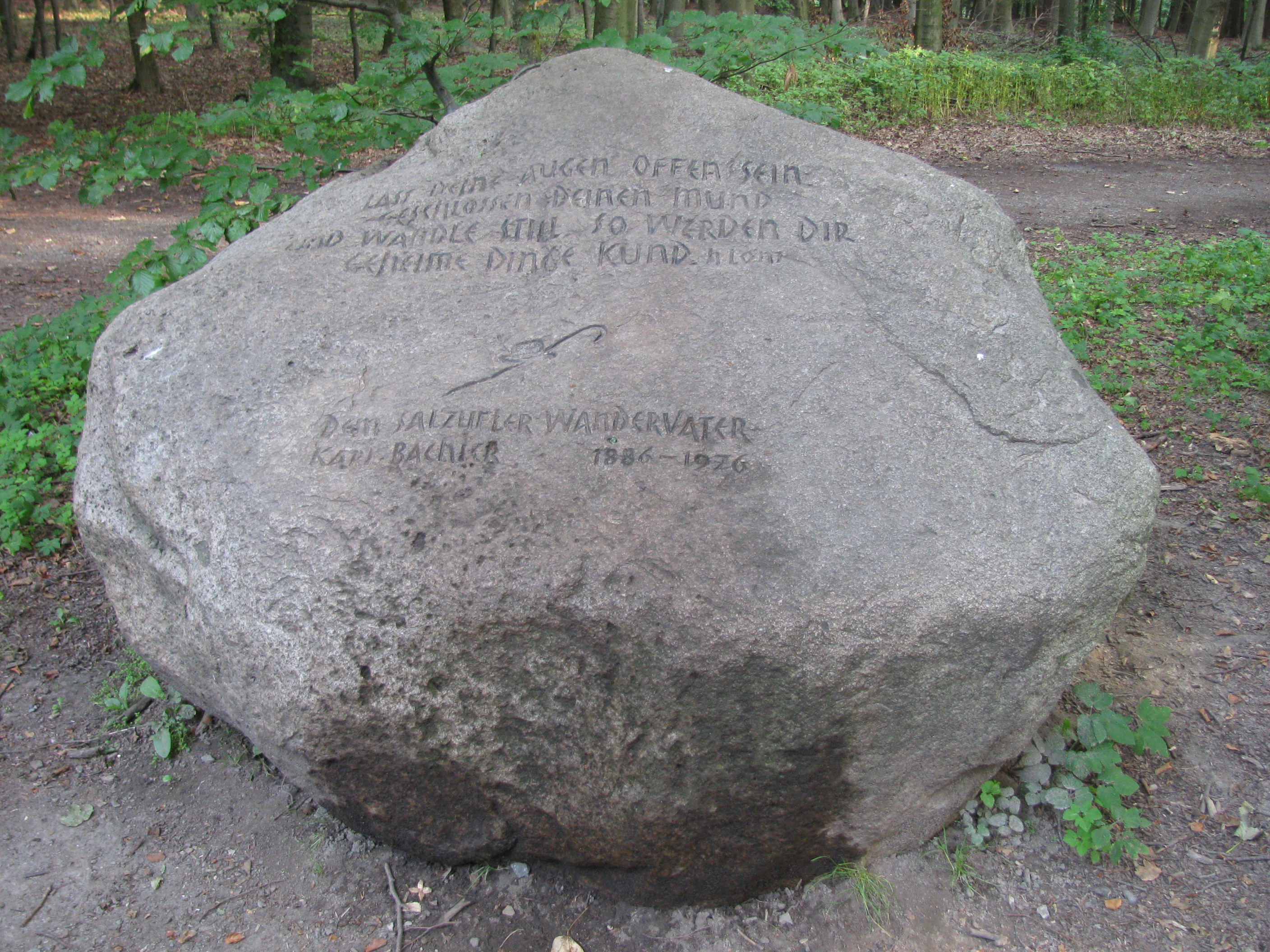 Germany - North Rhine-Westphalia - district Lippe - Bad Salzuflen: 'Karl Bachler'-memorial stone